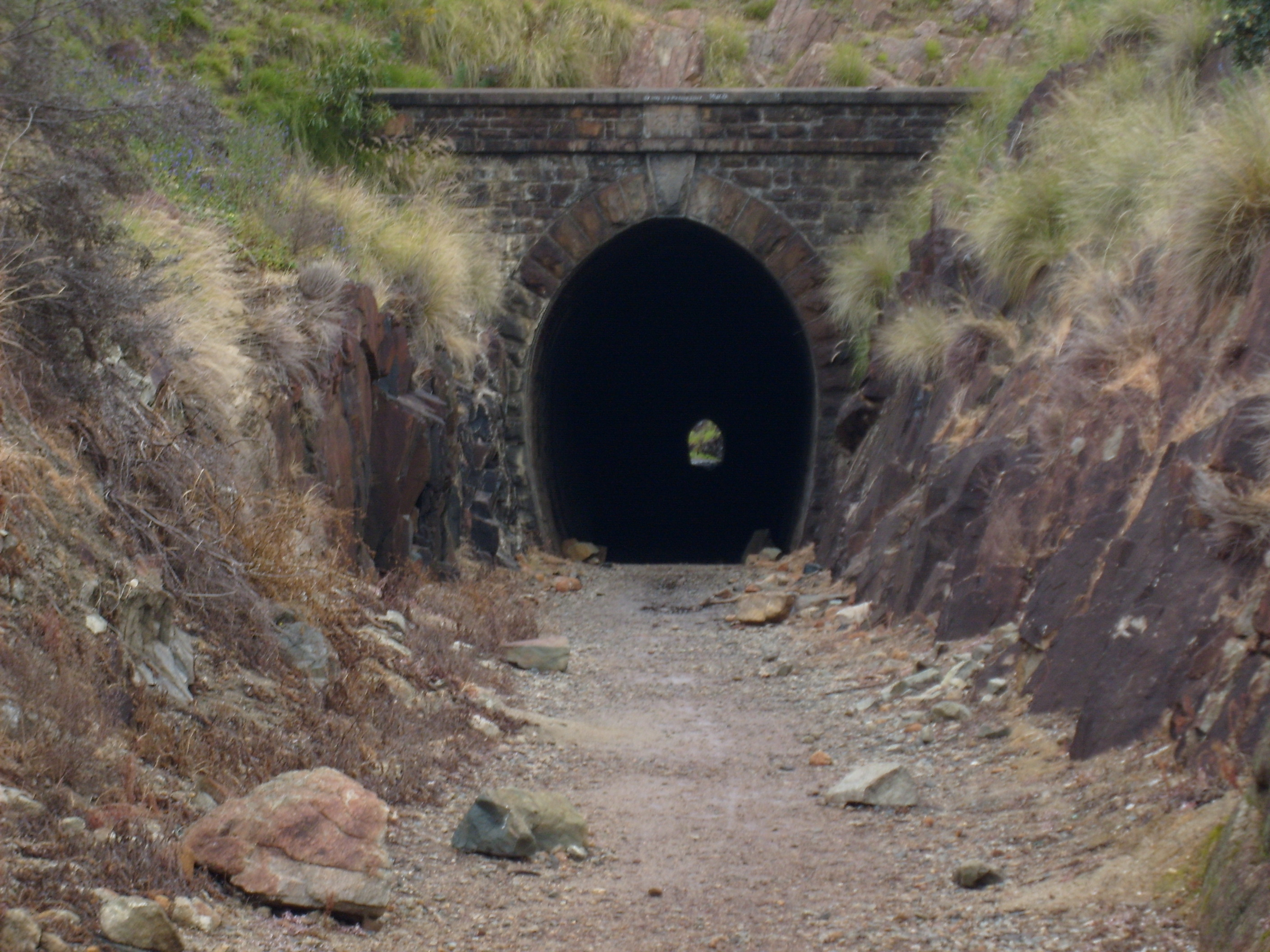 former railway tunnel entrance west end. Completed 1895. Located in John Forrest National Park, near Pechey Swan View Western Australia